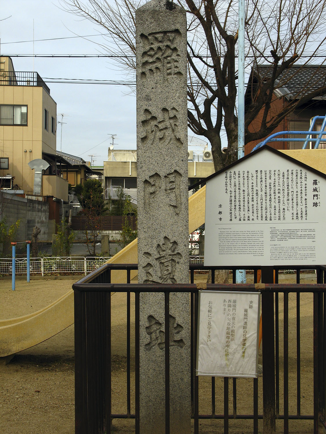 This marker shows the site of the former Rajōmon (Rashōmon), the great south gate to the city of Kyoto, Japan. I took the photo.